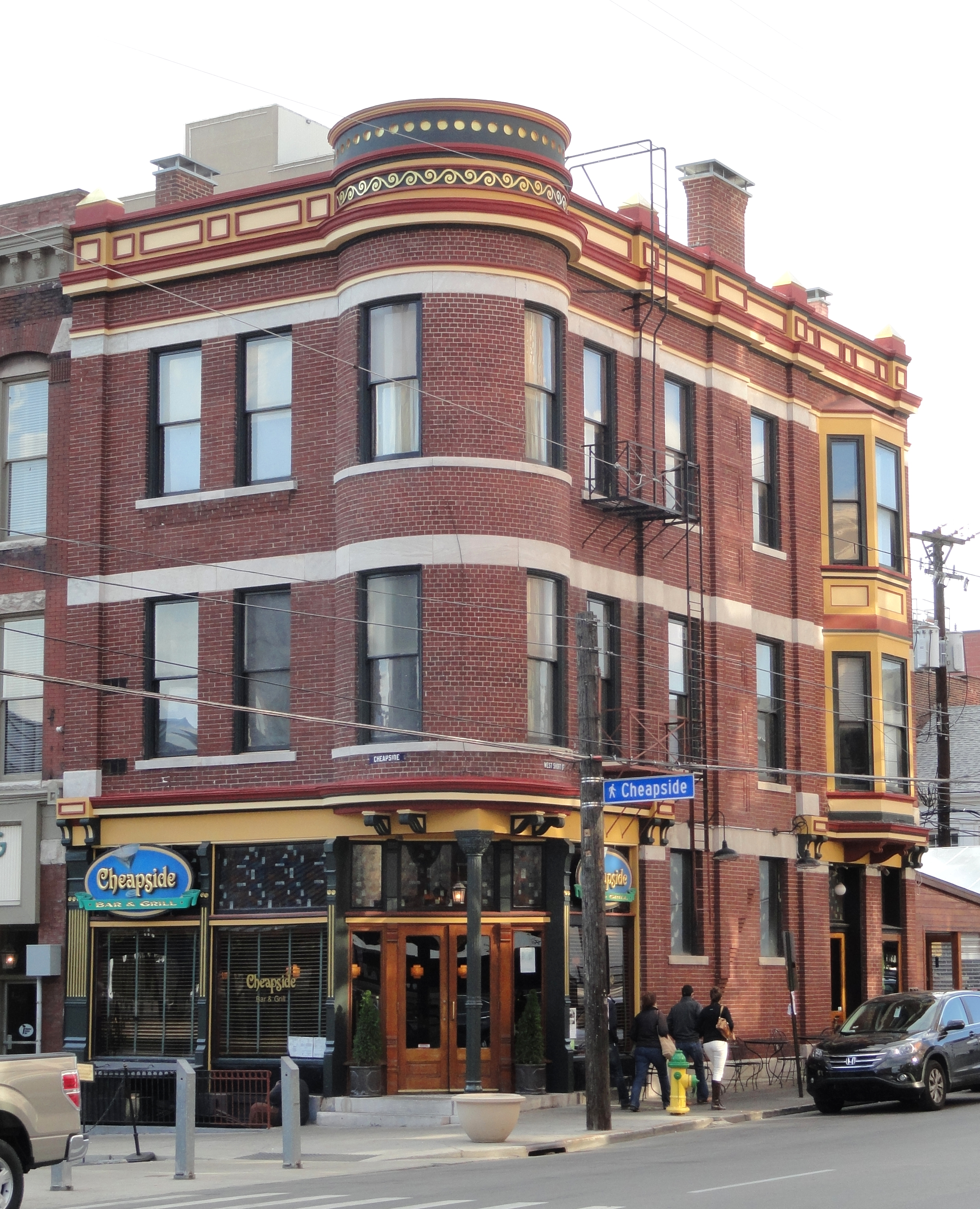 Building in Lexington, Kentucky, USA.